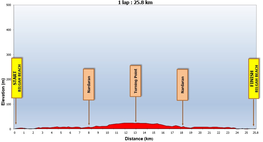 Cycling profile for Baku 2015, time trial